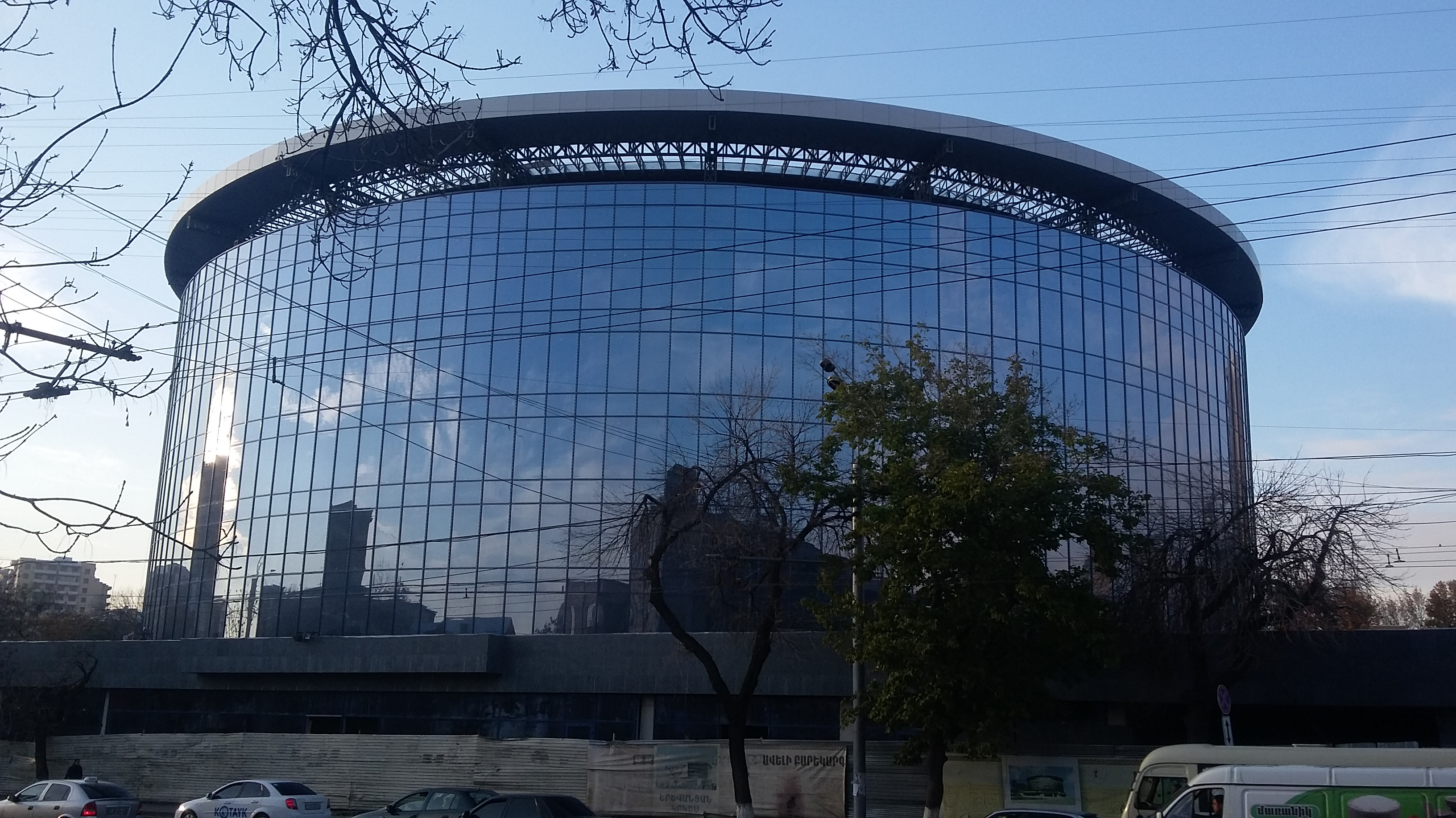 Yerevan Circus new building, 2018